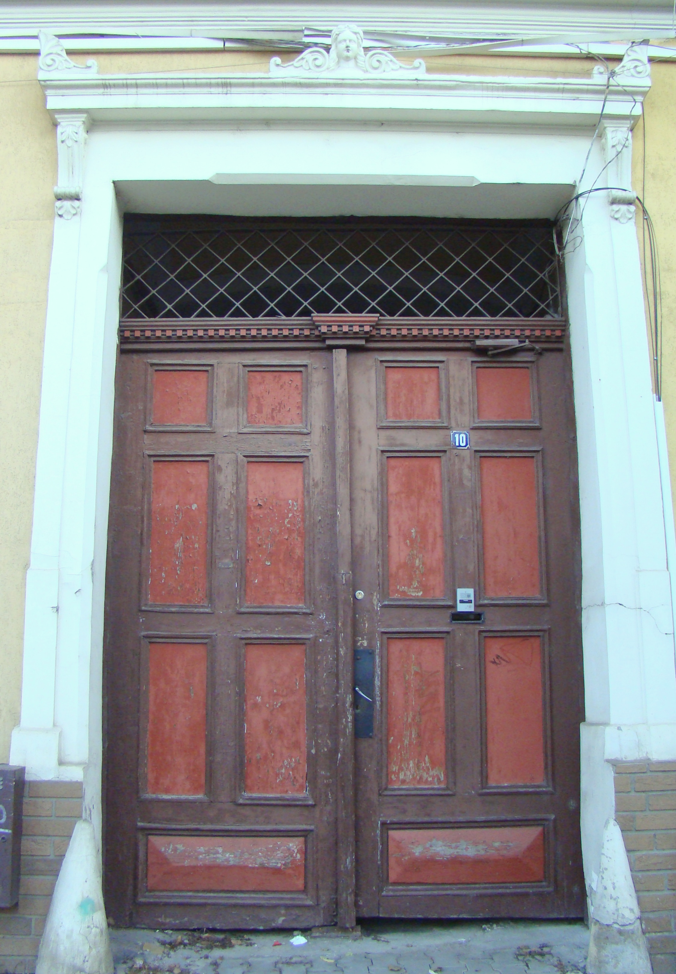 Building, historic monument, in Târgu Mureș, Revoluției street, number 10